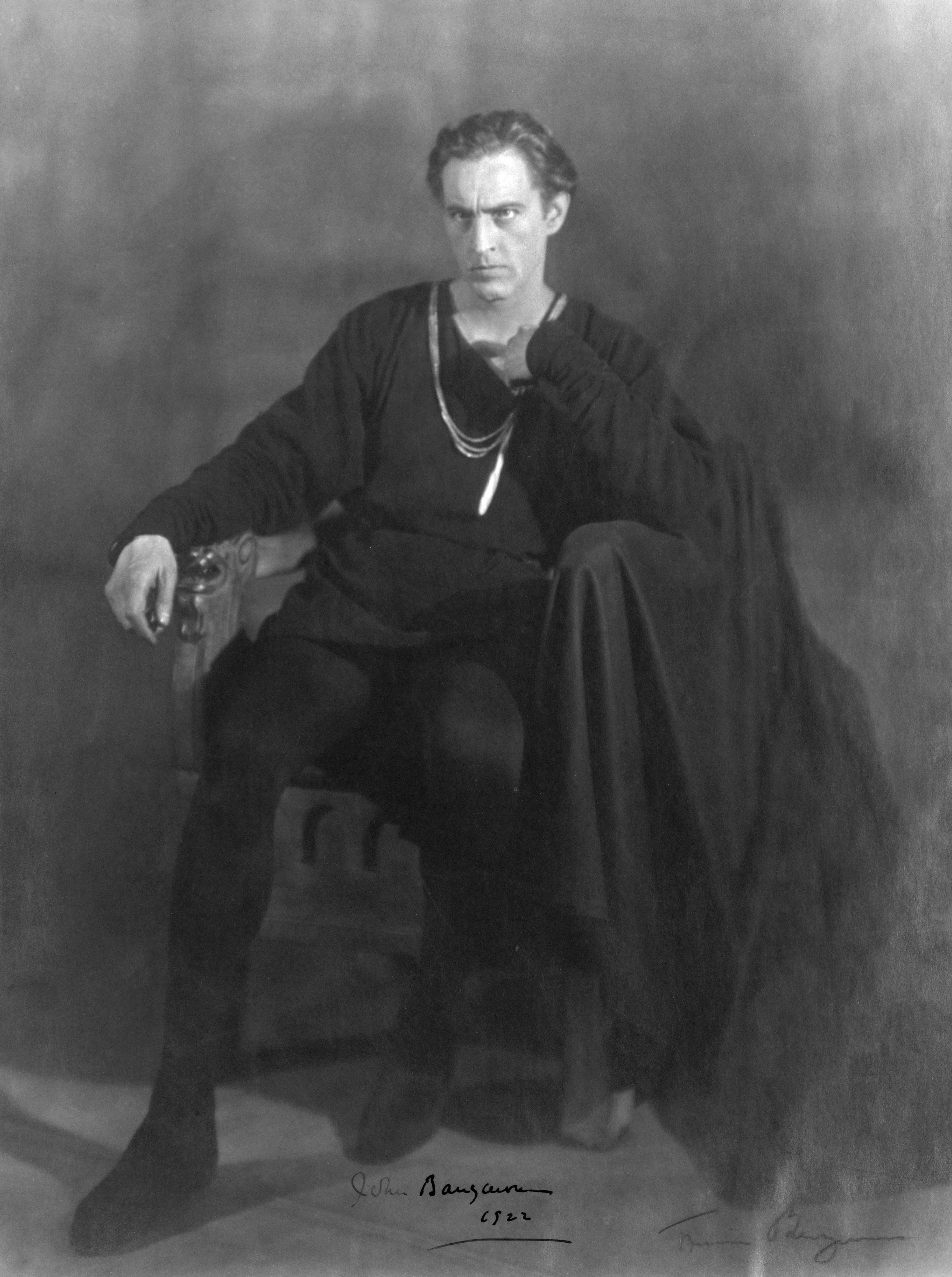 Autographed photograph of the American actor John Barrymore as William Shakespeare's Hamlet, in 1922.